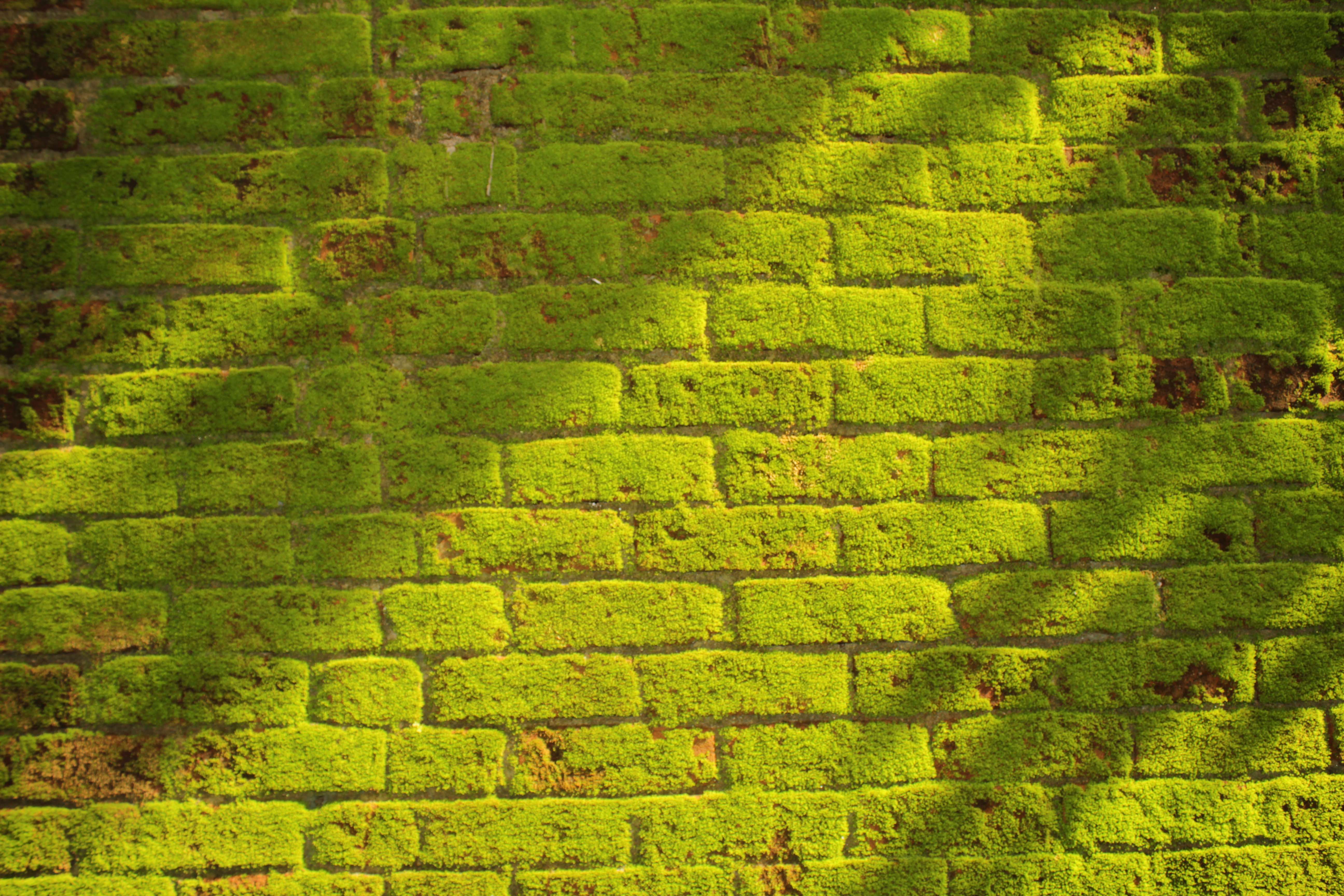 Moss on a wall. Photographed near Kanjirappally, Kerala, India